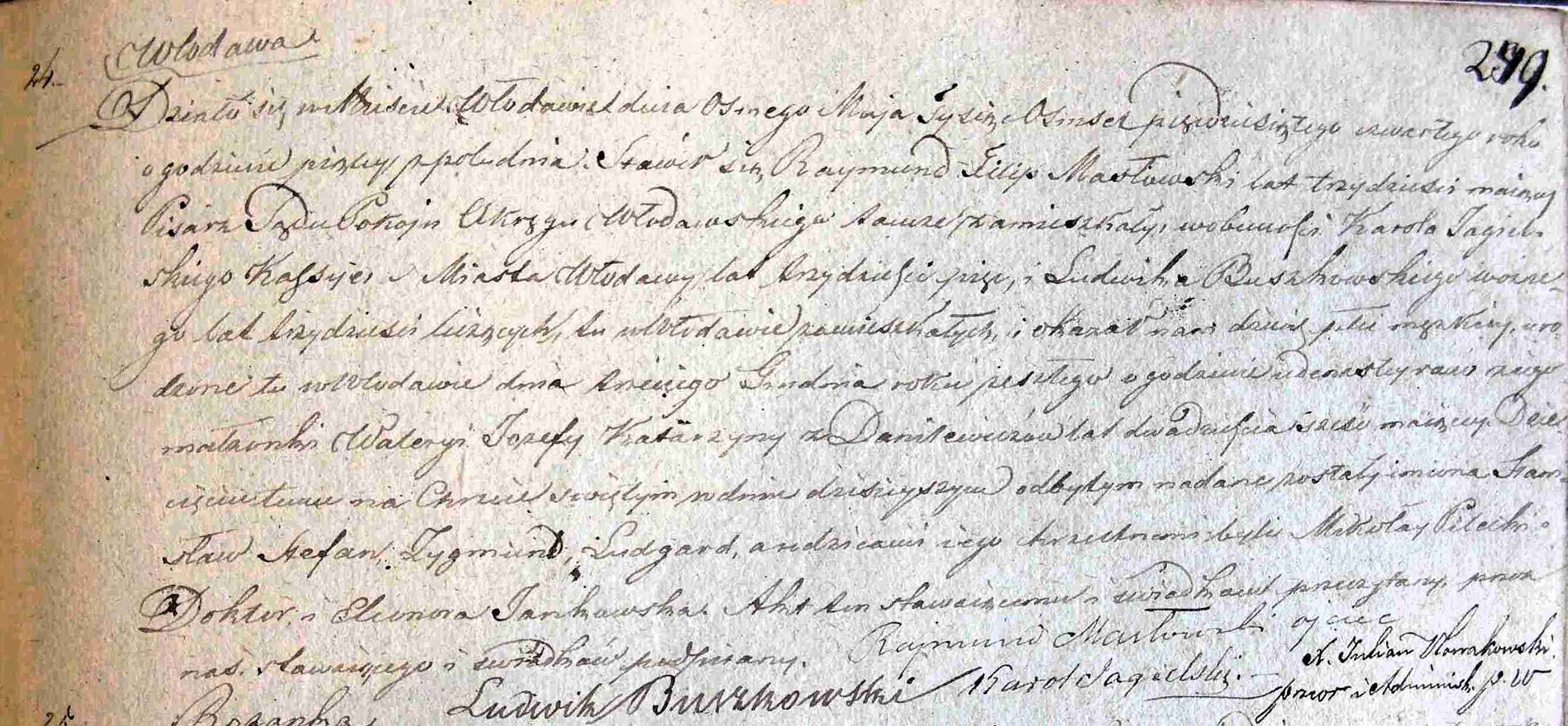 A photo reproduction of item No 24 from Birth and Baptism Register in St Ludwik Parish in Wlodawa, page 249, Poland